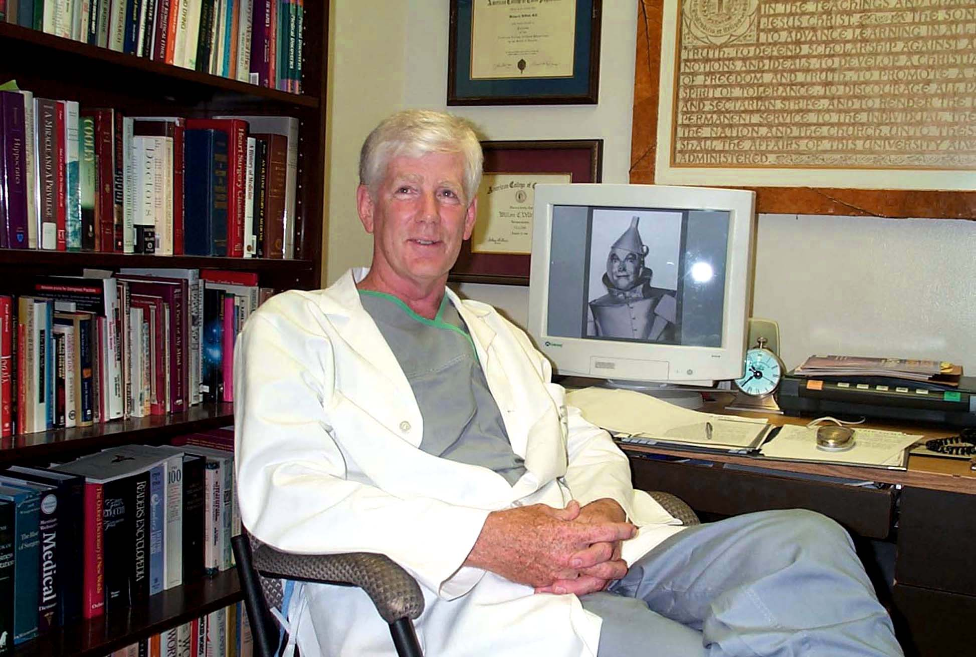 Dr. William C. DeVries, the heart specialist who implanted the world's first permanent artificial heart in the 1980.